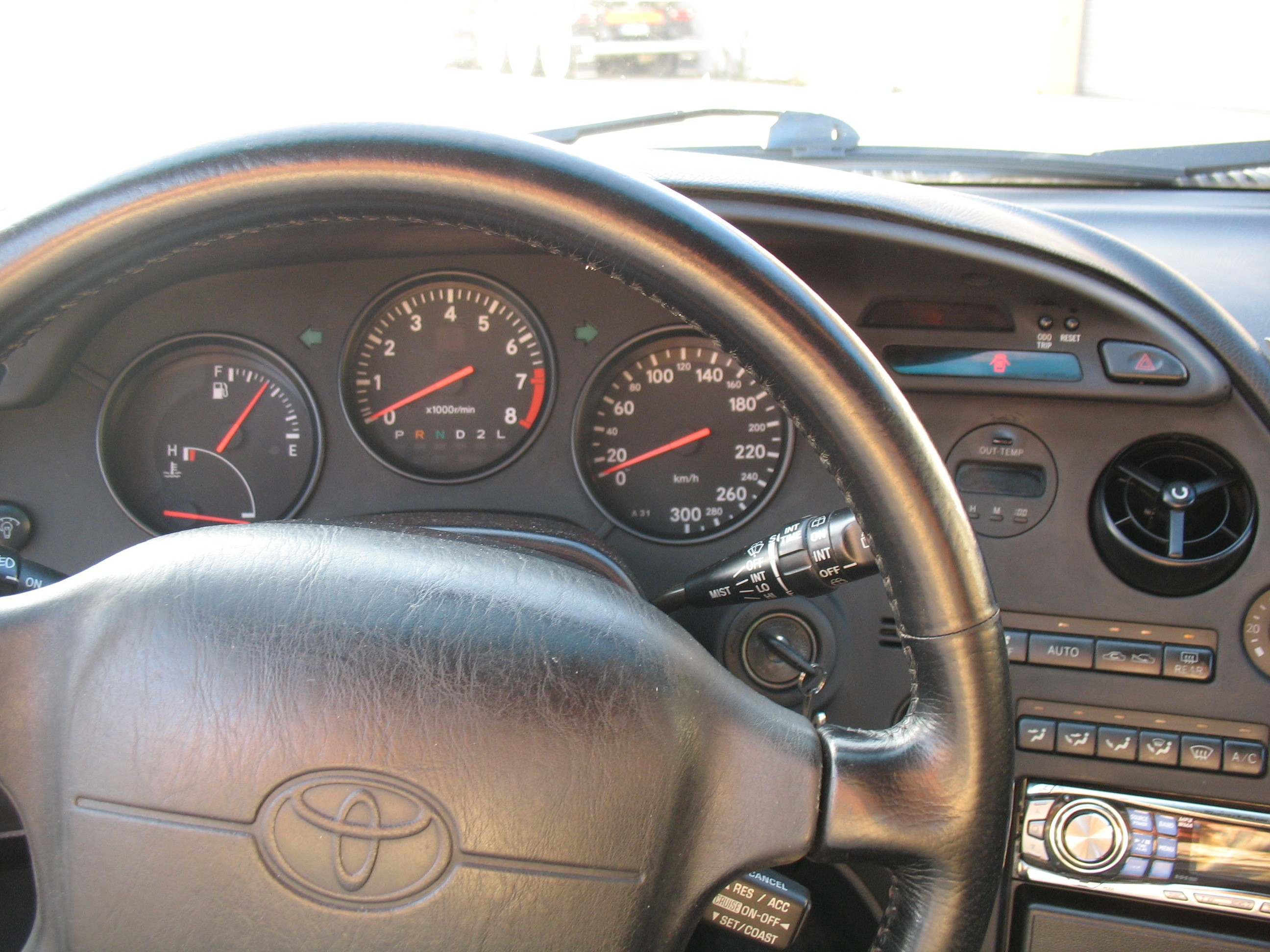 Toyota Supra MKIV Dashbord